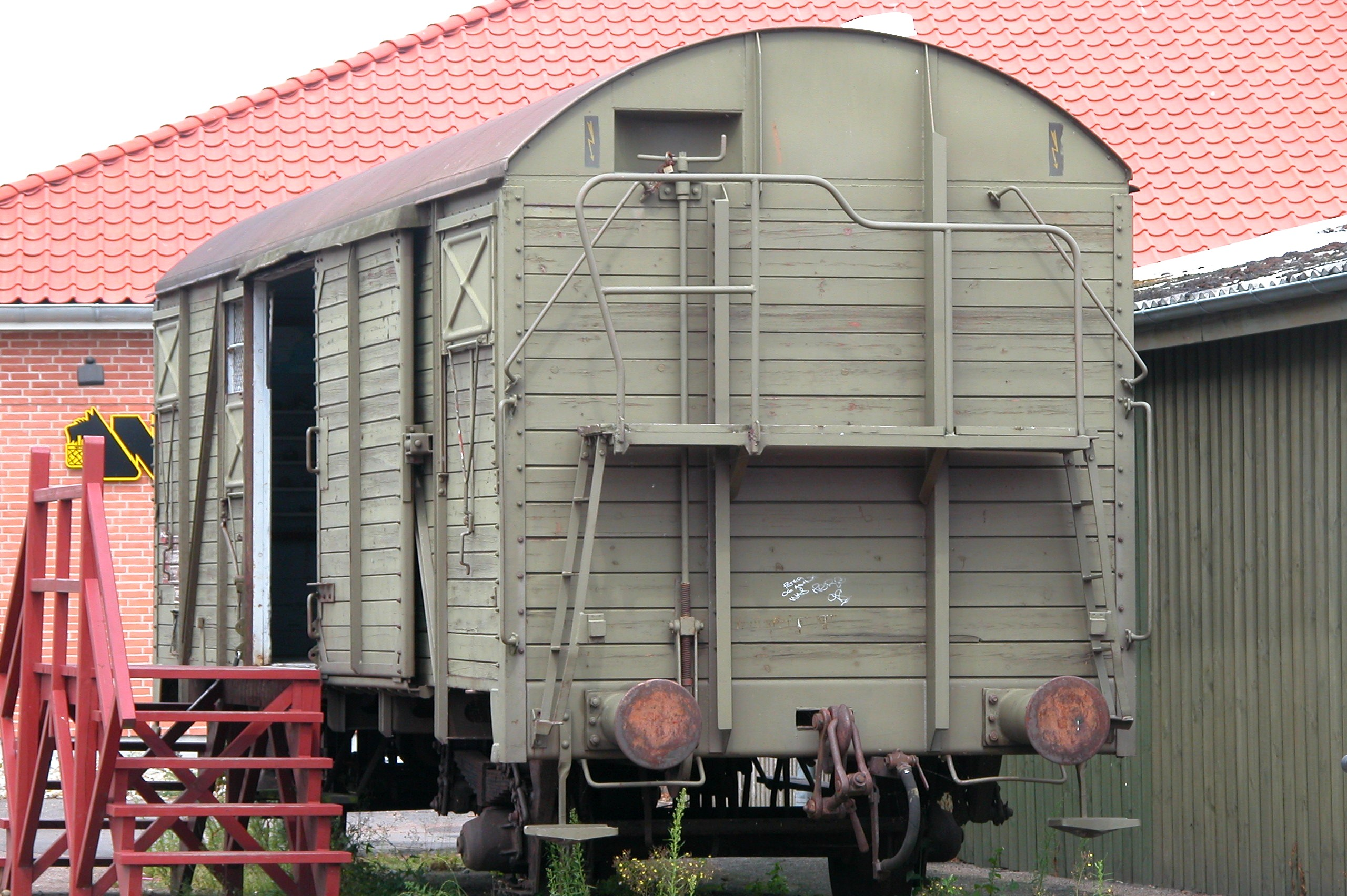 Old goods waggon in Ærøskøbing - Denmark